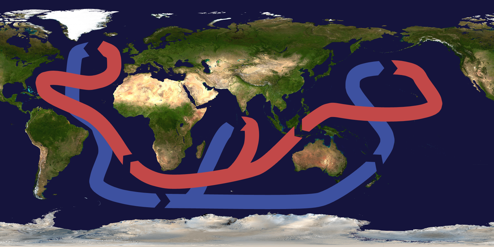 Map of the world showing the global thermohaline circulation.